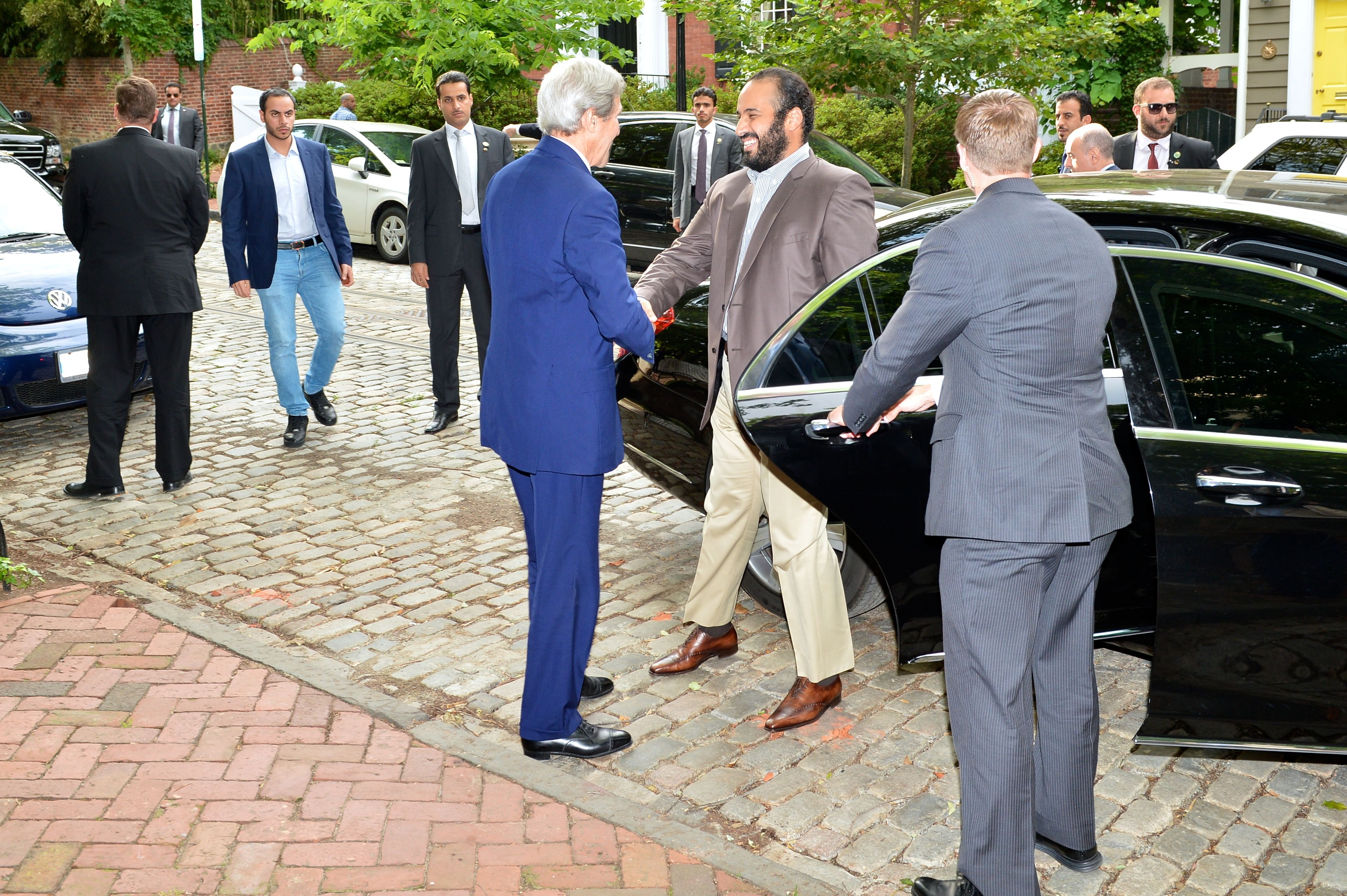 U.S. Secretary of State John Kerry greets Saudi Deputy Crown Prince Mohammed bin Salman before their meeting and iftar dinner in Washington, D.C., on June 13, 2016.